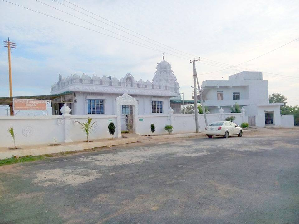 Swayambhi sri abhista gnana ganapathi